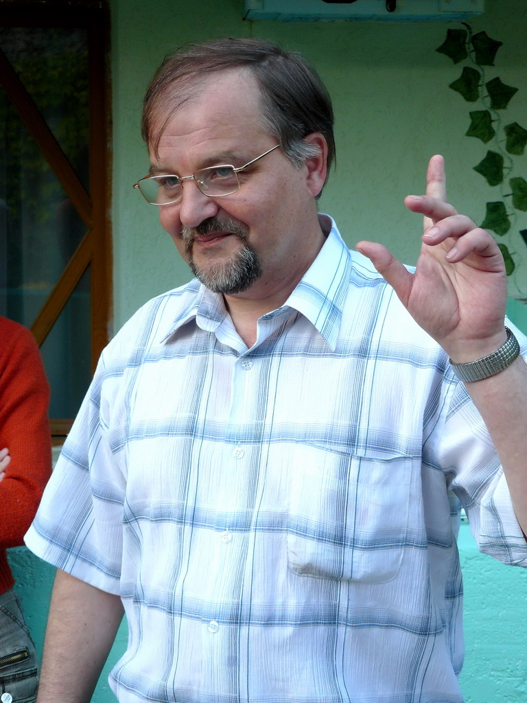 Science fiction writer Andrey Valentinov